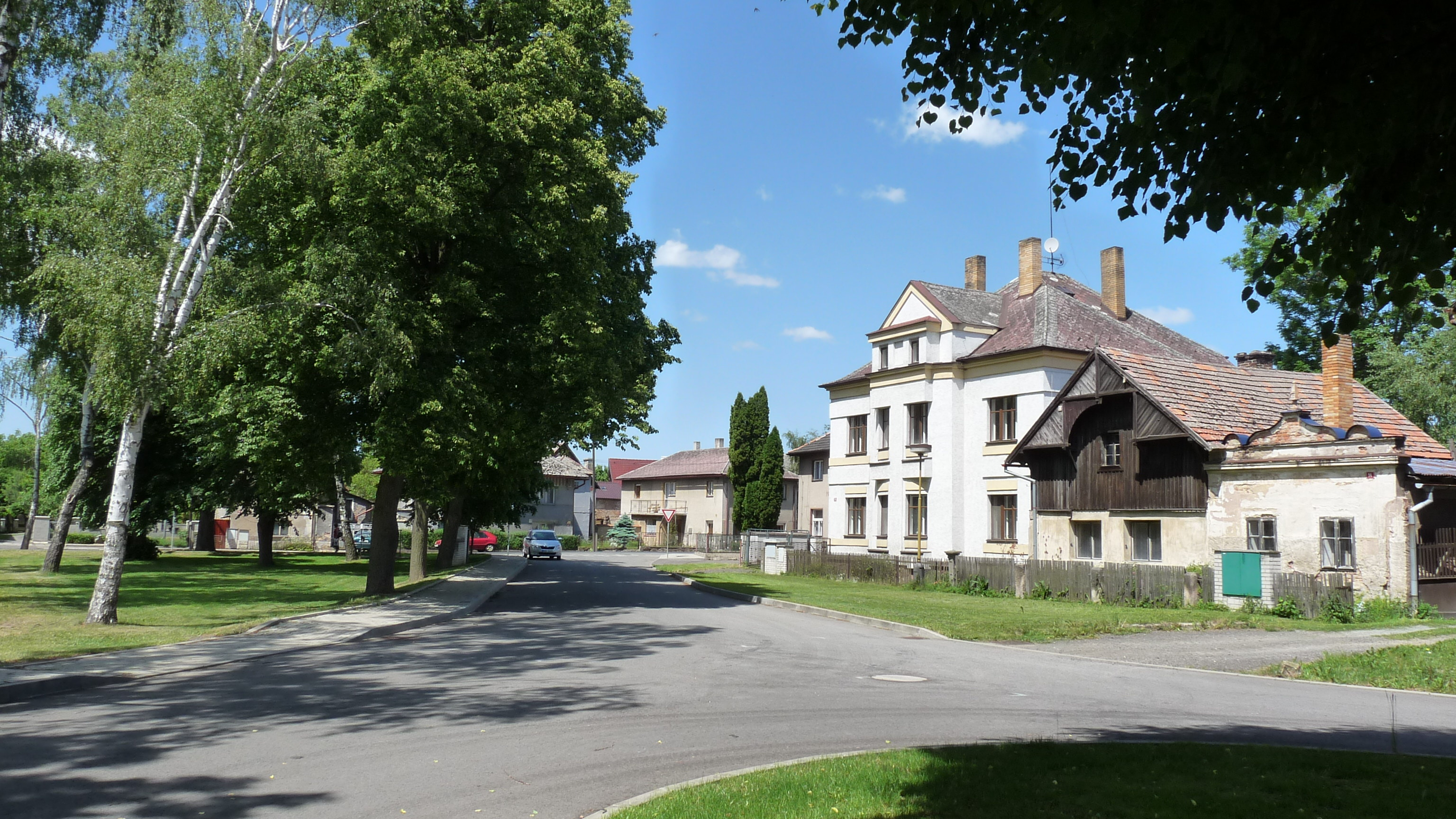 Katusice, Czech republic